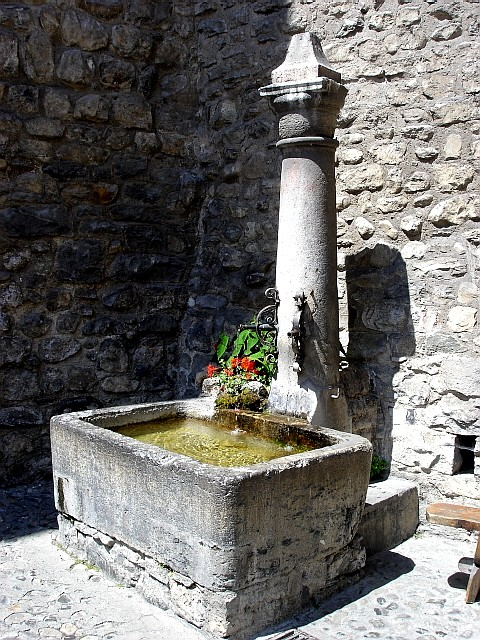 Chillon